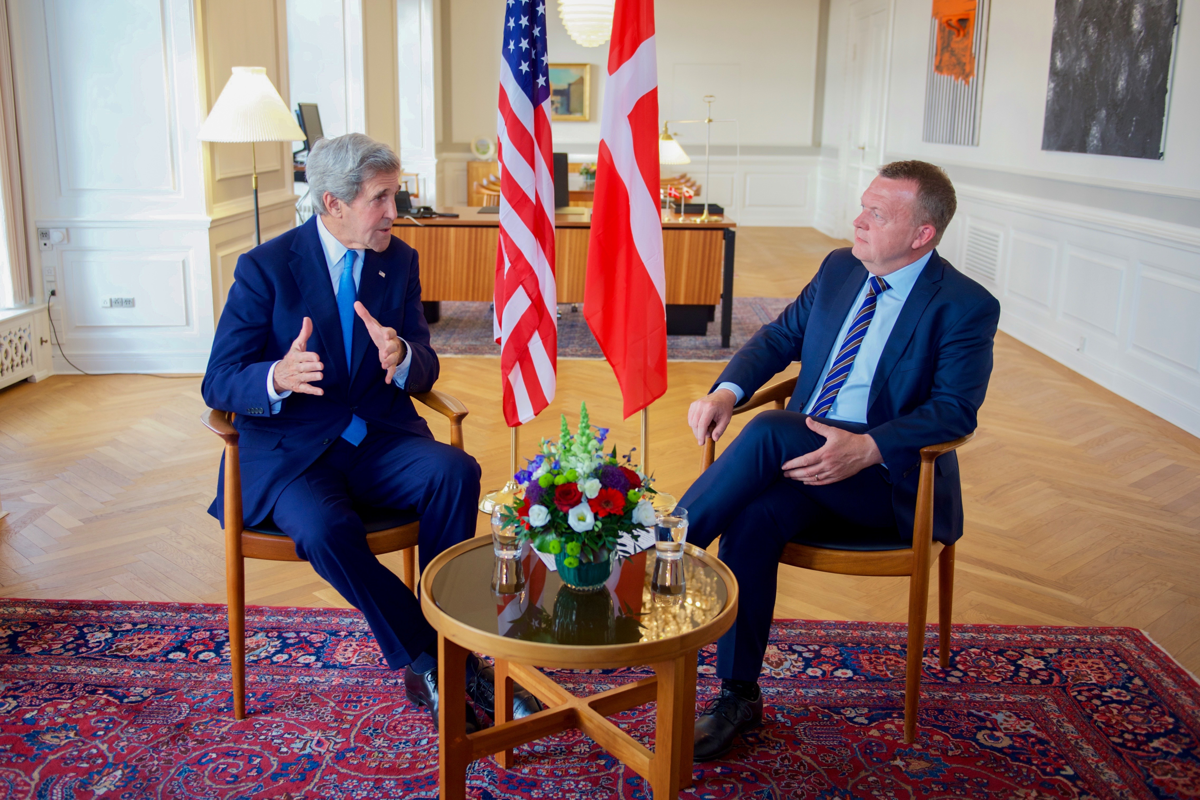 U.S. Secretary of State John Kerry and Danish Prime Minister Lars Rasmussen meet in the Prime Minister's Office in Copenhagen, Denmark, on June 16, 2016. [State Department photo/ Public Domain] [State Department photo/ Public Domain]